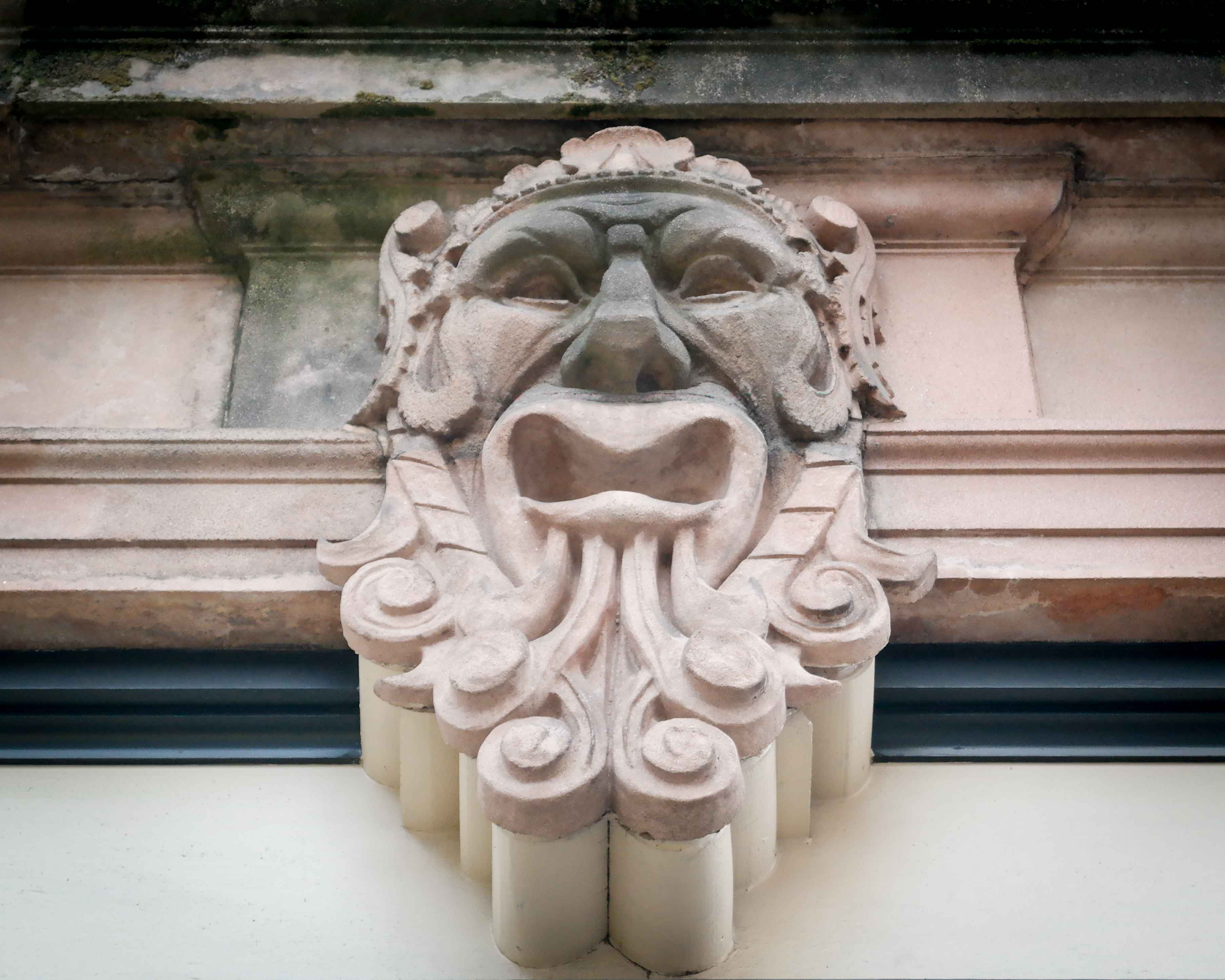 An architectural detail at the Arlene Schnitzer Concert Hall, originally the 1928 Portland Theater, then the Paramount Theatre in Portland, Oregon.